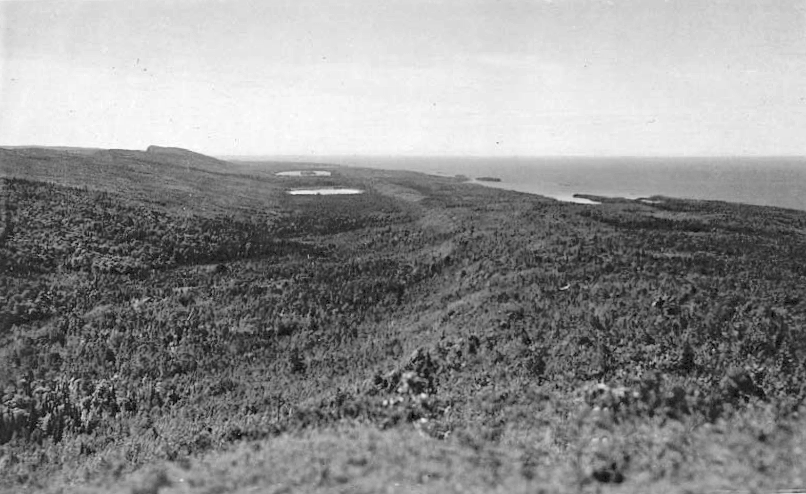 Views of Lakes Upson and Bailey from West Bluff summit. The roadway of Brockway Mountain Drive has not yet been constructed.